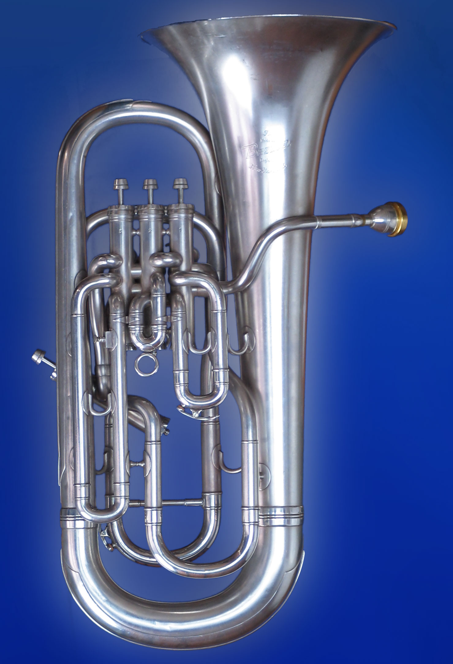 Euphonium Besson Standard, compensating side valve instrument, frosted silver finish